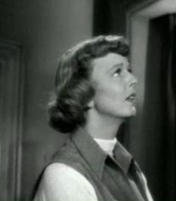 Cropped screenshot of Margaret Sullavan from the trailer for the film No Sad Songs for Me